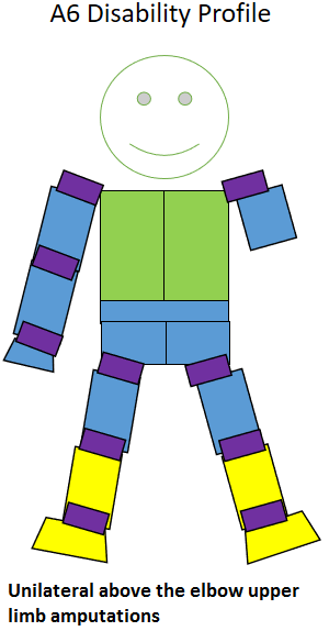 Amputee sport related classification illustration using the ISOD/IWAS classification system.